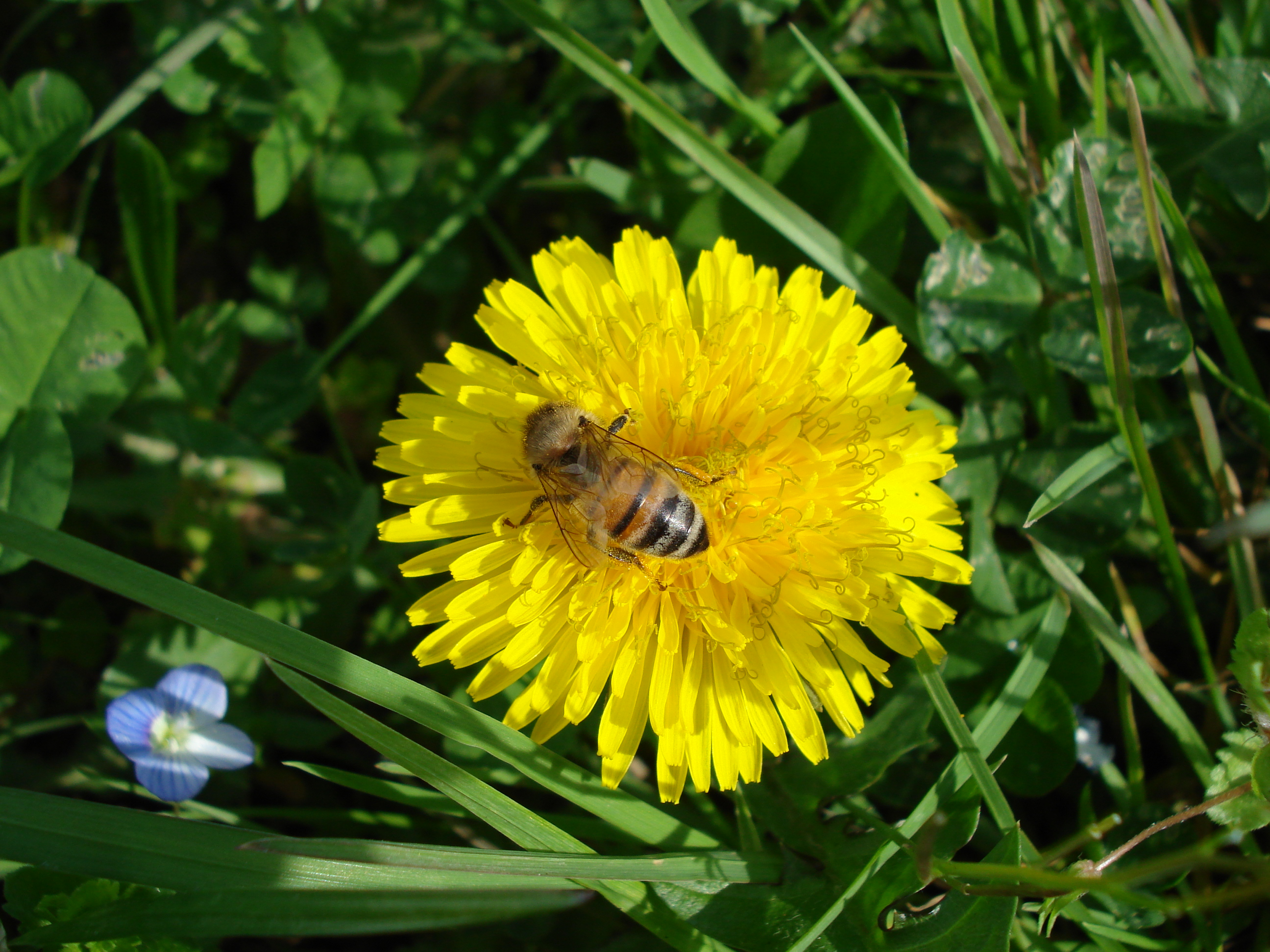 A bee on a dandelion